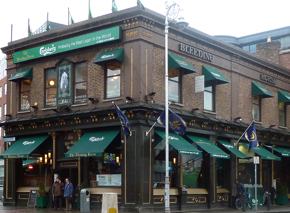 Photograph of the Bleeding Horse public house, Camden Street, Dublin, Ireland. Taken by me in January 2011.